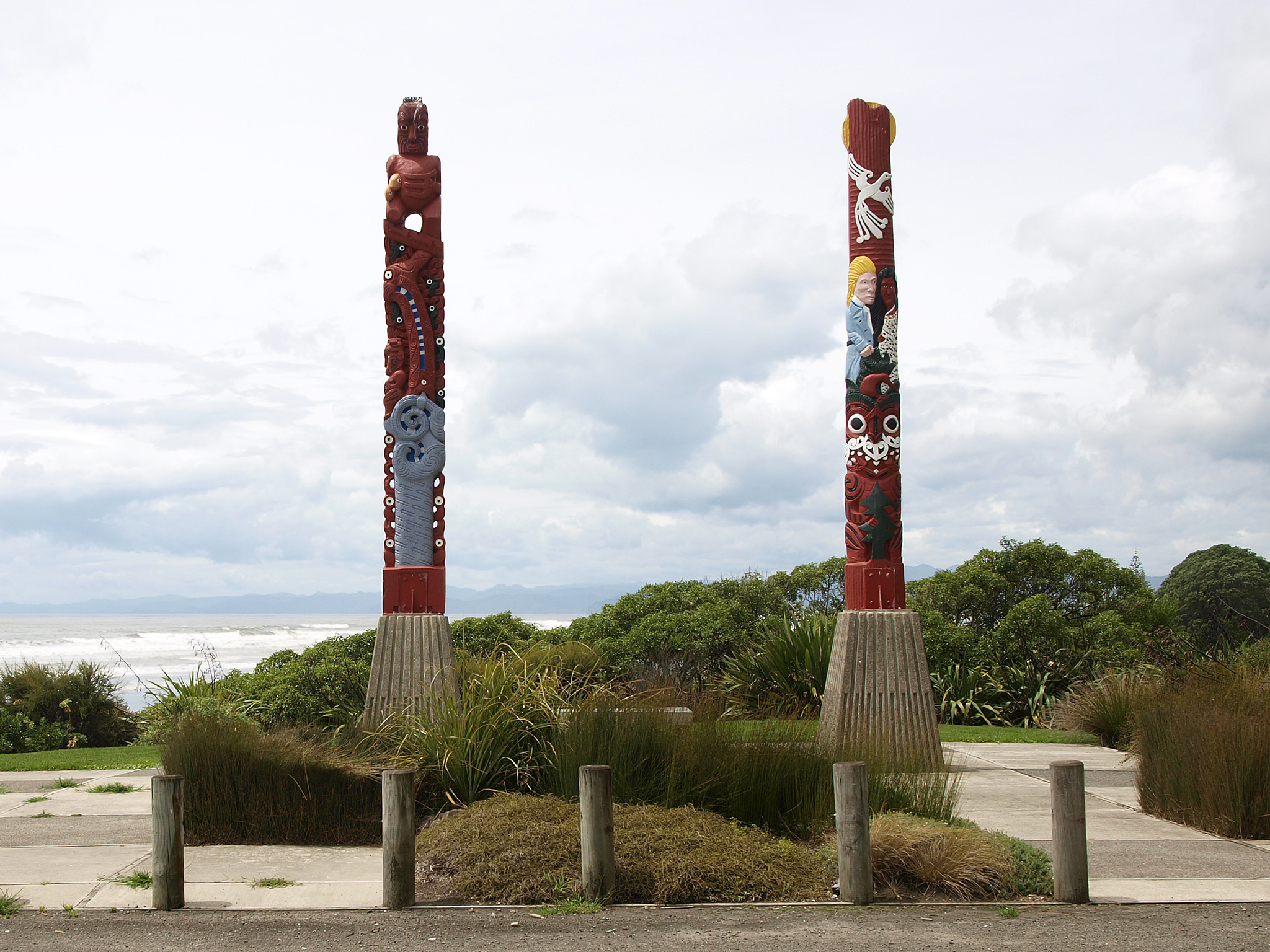 Te Ara Ki Te Rawhiti - The pathway to the sunrise - Waiotahi Beach, Opotiki, Bay of Plenty, New Zealand.